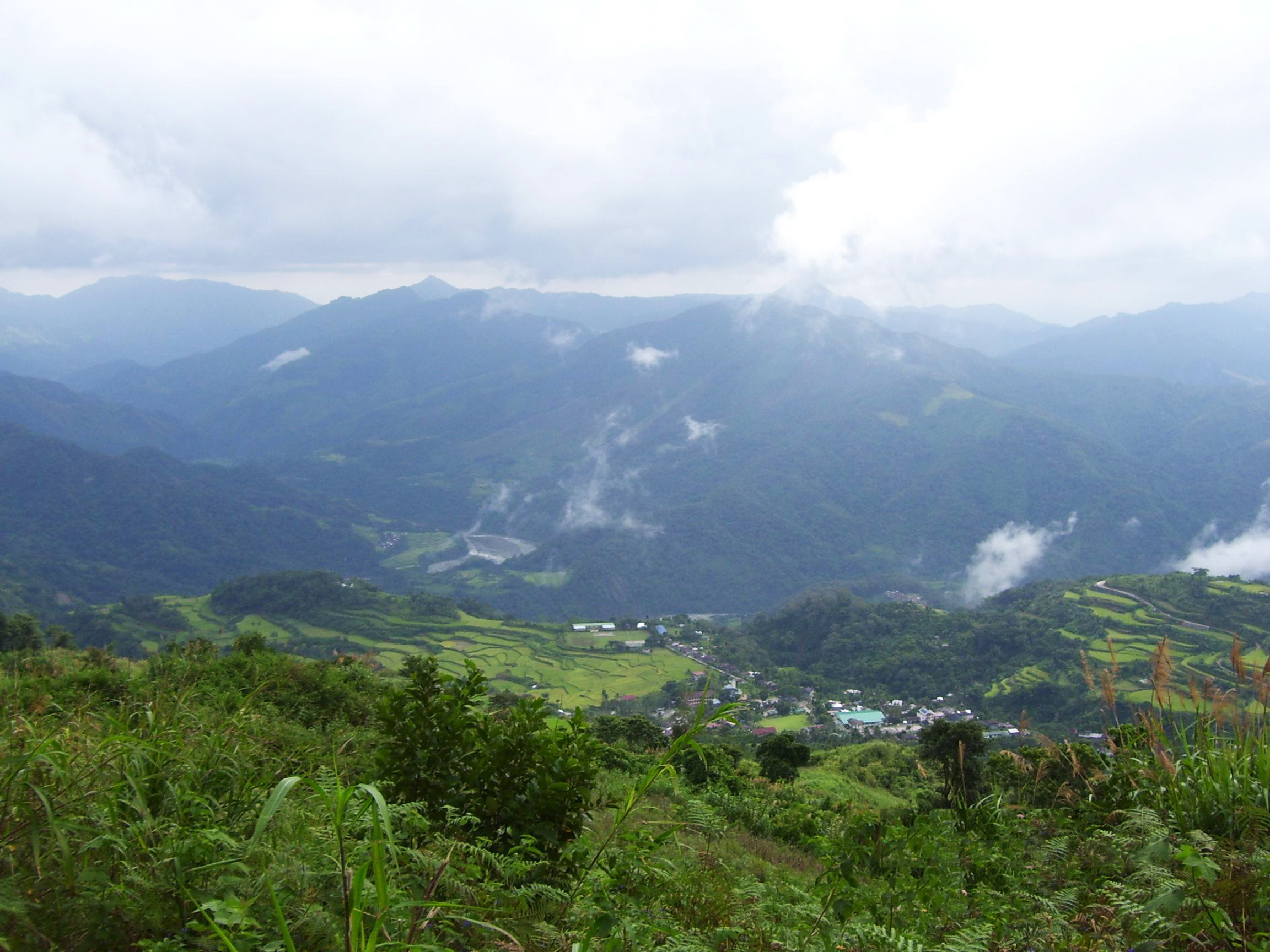 Lubuagan, former capital of Kalinga province, viewed from top of Magmag-an Pass, October 2007.